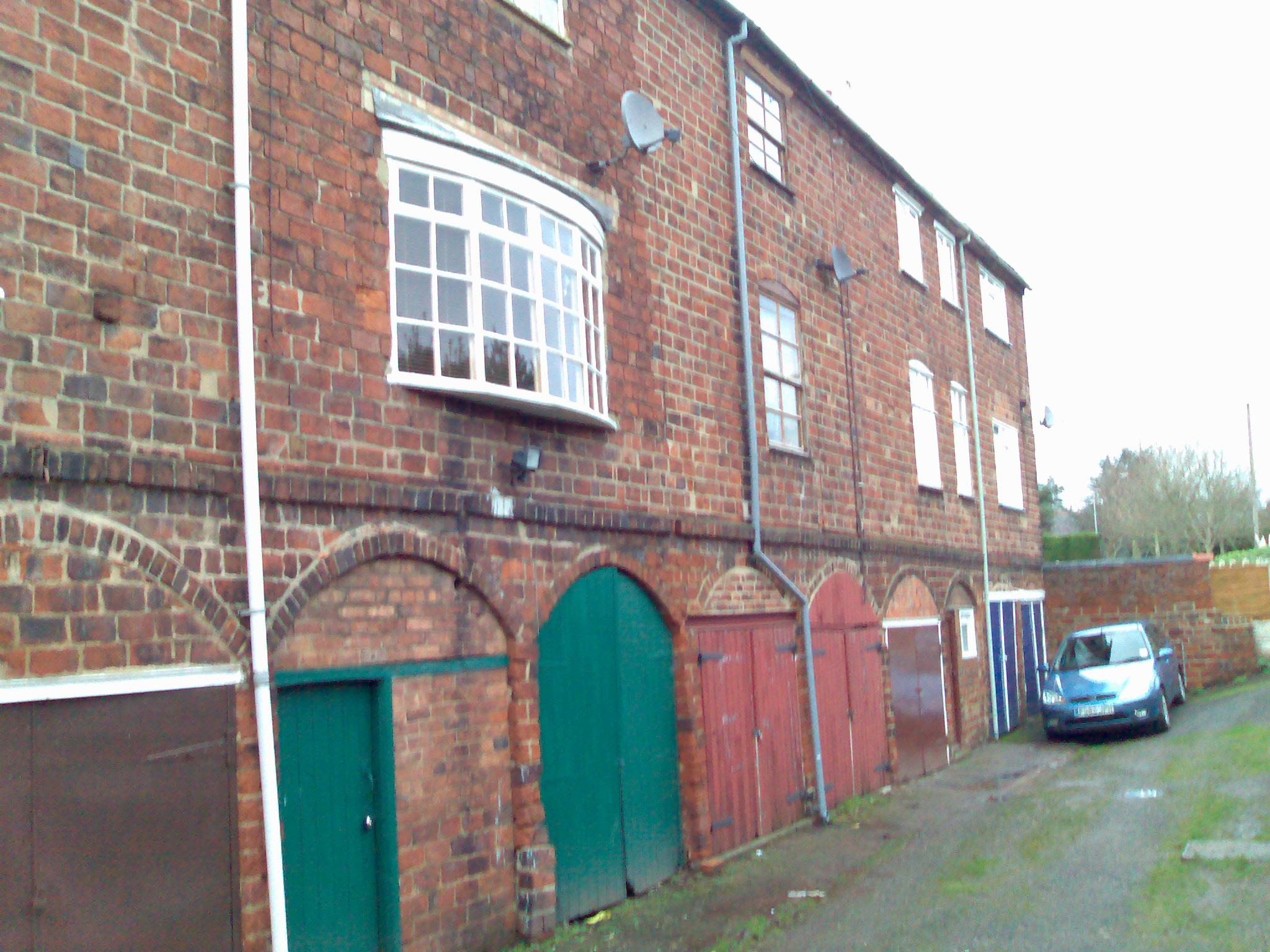 Brickyard Cottages in Measham. These buildings were originally part of Joseph Wilkes' brickyard circa 1790 and are constructed of his oversized 'Jumb' bricks. The ground floor sheds were used to dry the bricks before they were fired in the kilns and the upper floors were weaving sheds. They were converted to residential use in 1851.